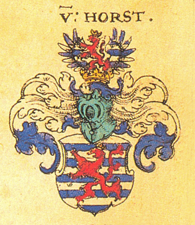 Coat of Arms of Horst, rheinl.